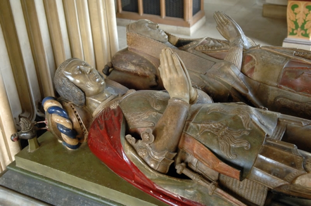 Sir John Spencer and Isabella Graunt's tomb at Great Brington, Northamptonshire, England. John Spencer (died 1522) was an English landowner and entrepreneur. His head rests on his helm atop which is the crest of Spencer (a variety of bird). On his chest he displays the arms of Spencer (ancient): "Azure, a fess ermine between six sea-mew's heads erased argent". The Spencers were first granted a coat of arms in 1504, "Azure a fess Ermine between 6 sea-mews’ heads erased Argent," but this bears no resemblance to the arms used by the family (later Earl Spencer) after c. 1595, which were derived from the Despencer arms, "Quarterly Argent and Gules in the second and third quarters a Fret Or overall on a Bend Sable three Escallops of the first". For his biography, see [1]